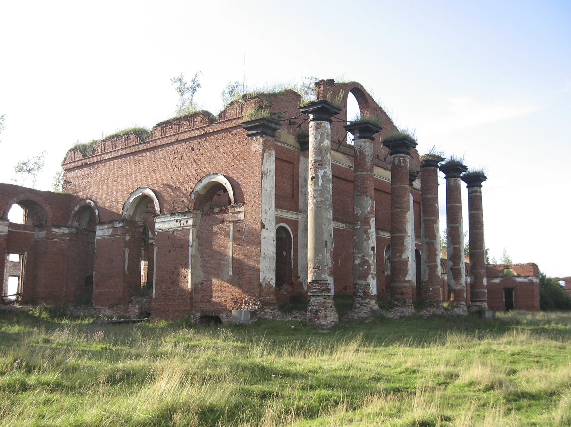 Selishi village. Chudovsky district, Novgorod oblast, Russia